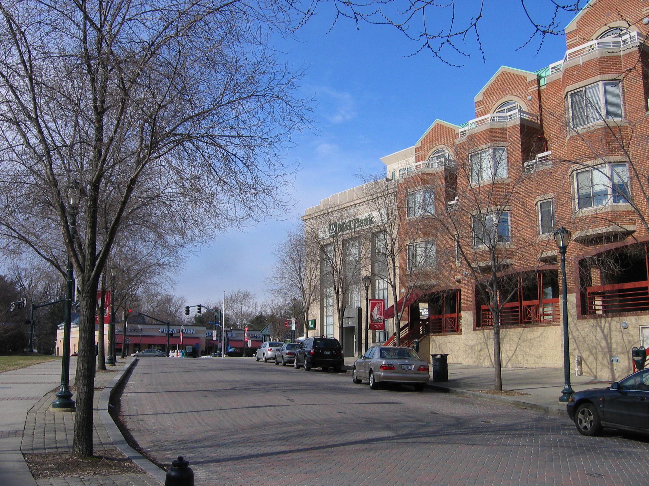 Rockville, Maryland town center � a mix of government offices and shopping. Photo taken by Kmf164 on January 8, 2006.